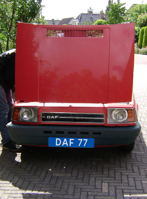 Photoshop of the p900 mockup. Own work